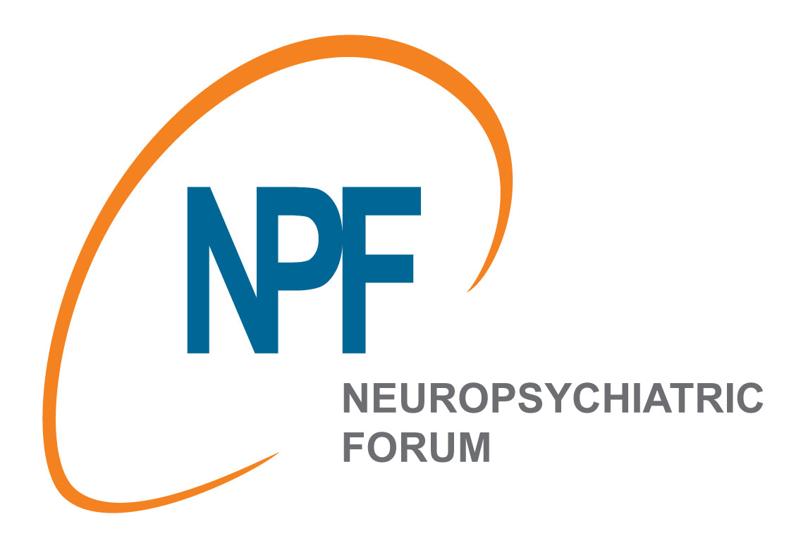 Neuropsychiatric forum - diseases of the brain under one roof